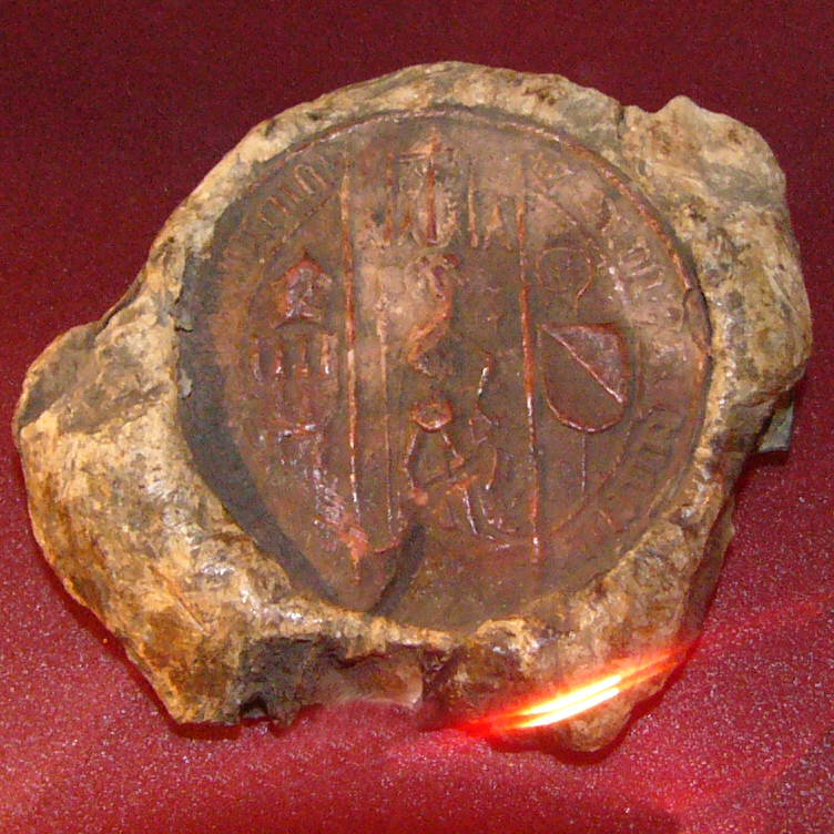 Seal of bishop Pavel z Miličína (Czech Republic)..